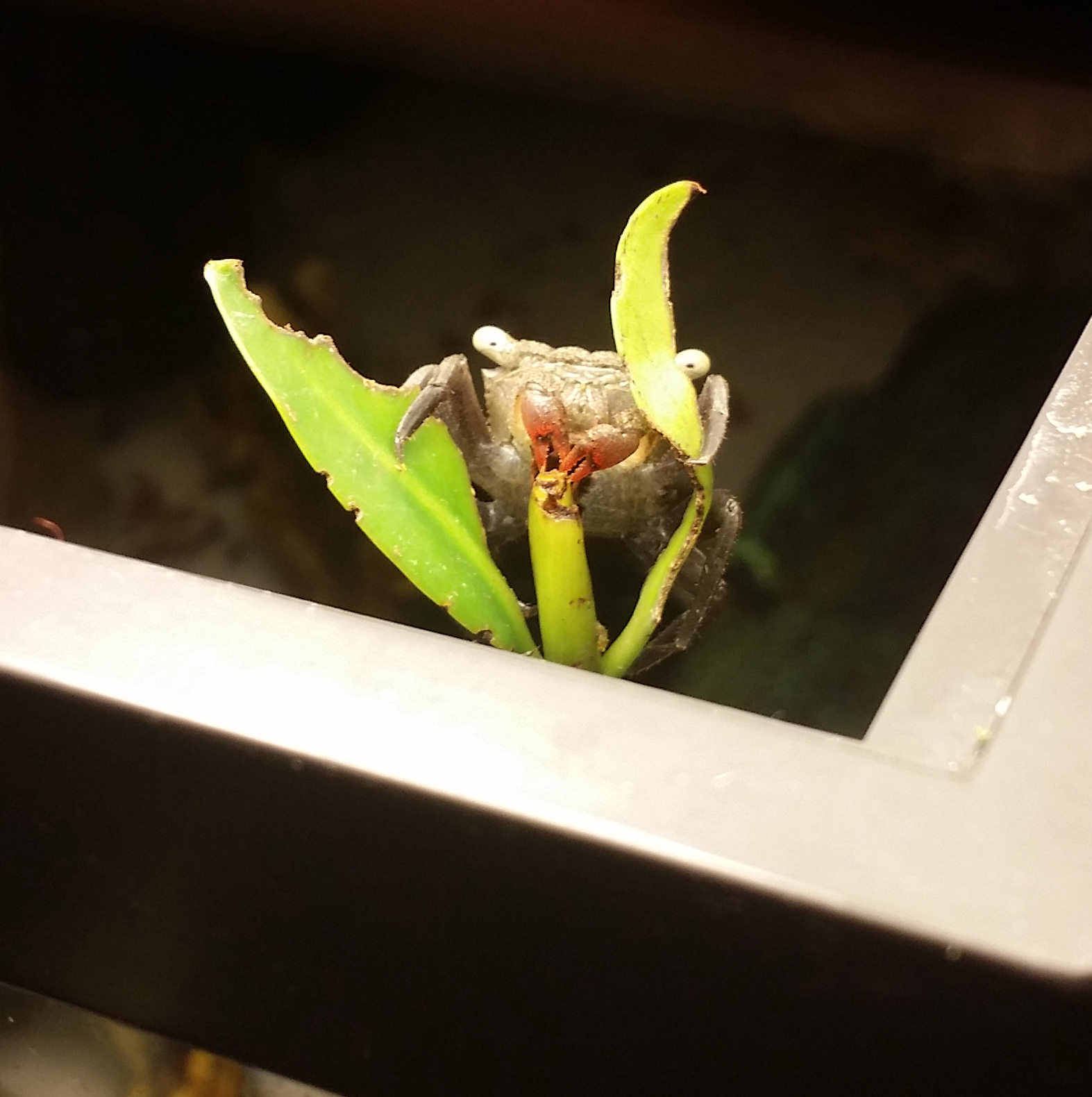 A black mangrove crab feeding on a mangrove leaf in an aquarium